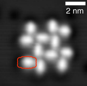 STM constant-current image (I=30 pA, Vb=−1.5 V) of PTCDA clusters on NaCl(2 ML)/Ag(111) formed after room temperature annealing